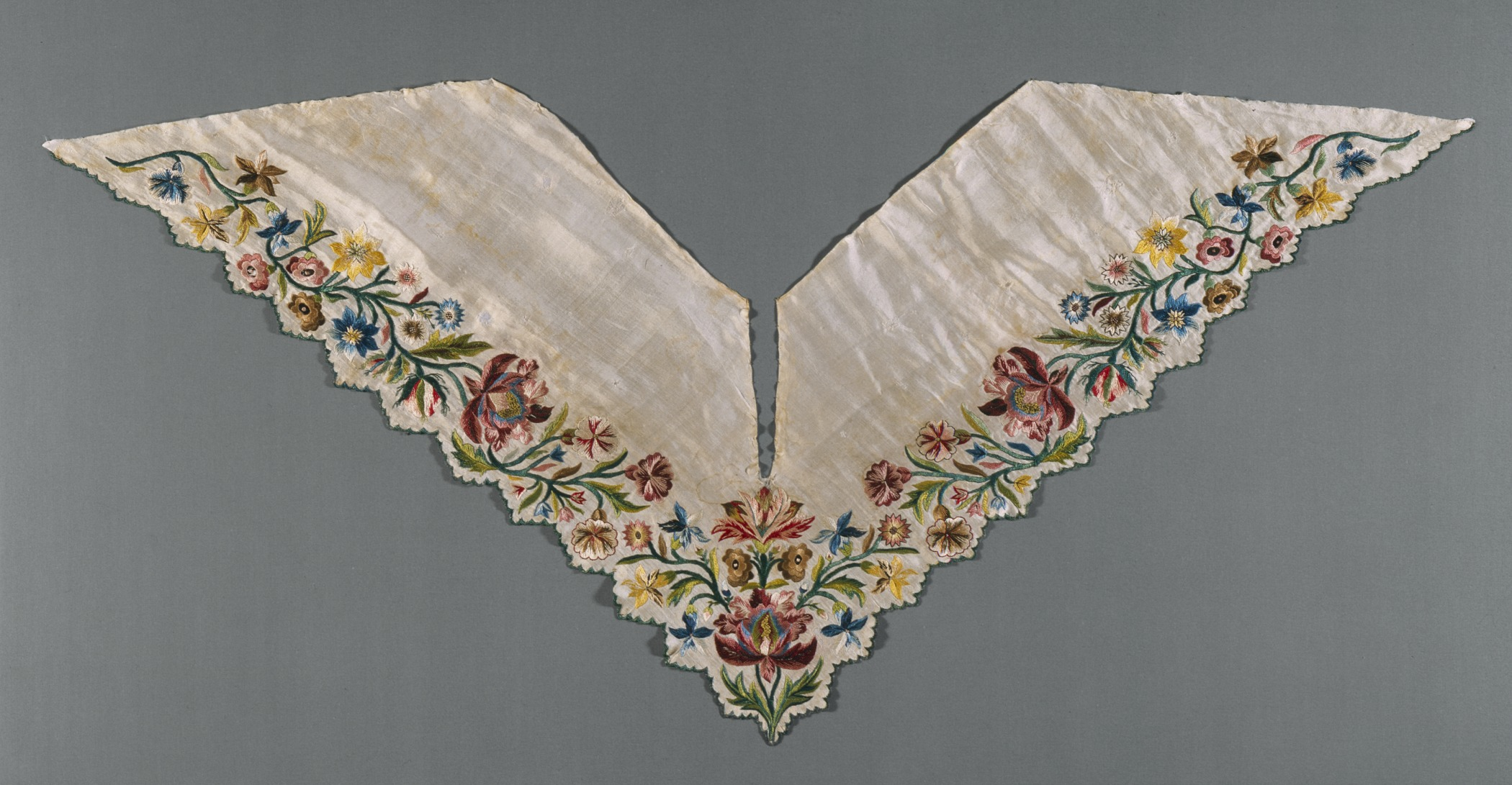 probably Holland, 1750-1800 Costumes; Accessories Silk embroidery on silk 28 3/4 x 28 1/4 in. (73.03 x 71.76 cm) Purchased with Funds Provided by Mr. and Mrs. Marvin Chesebro (M.82.23) Costume and Textiles